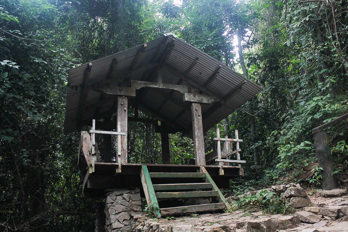 Kakum National Park